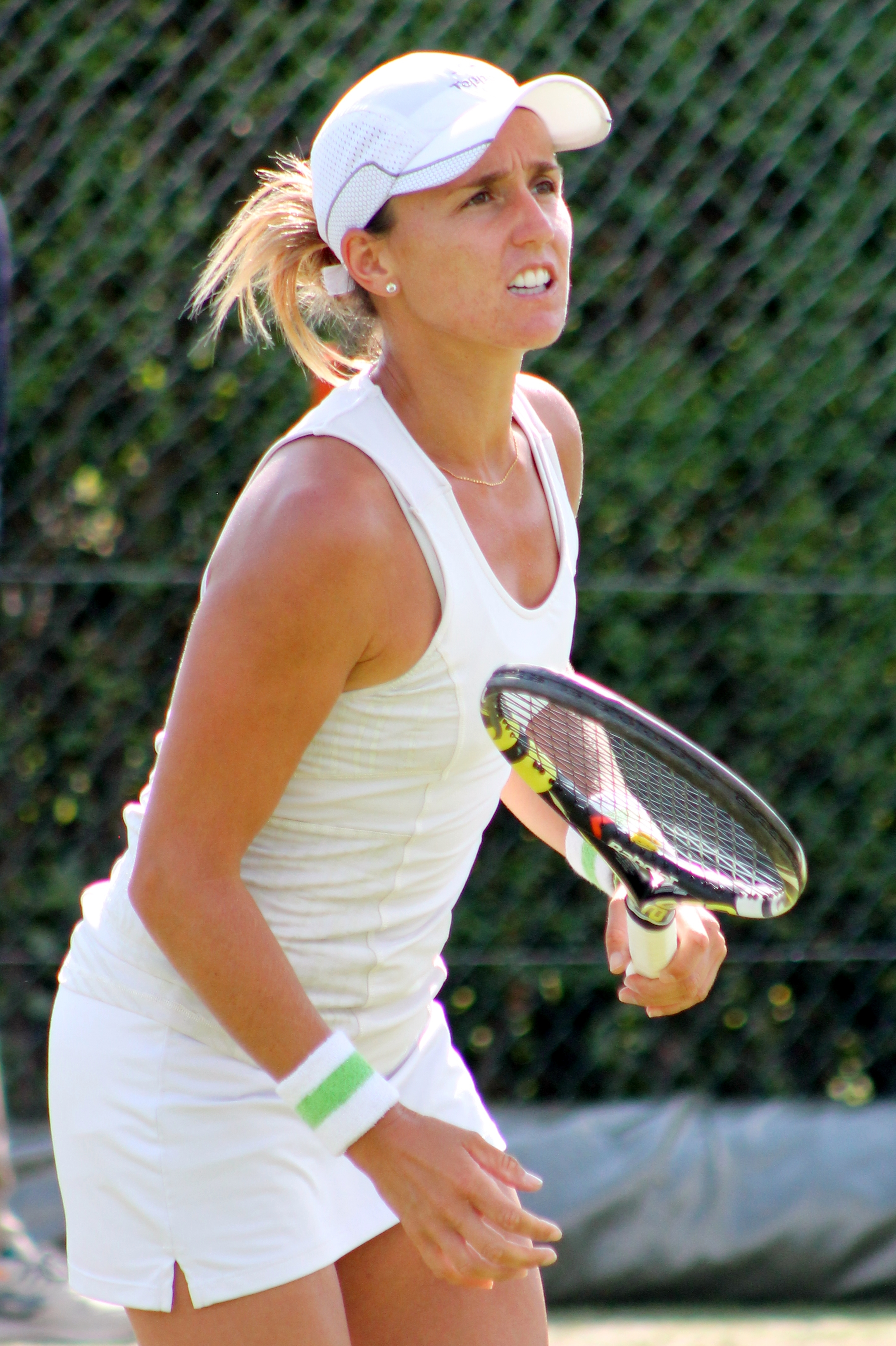 Irigoyen WMQ15 (1)